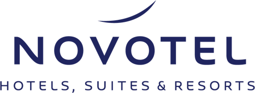 Logo of Novotel